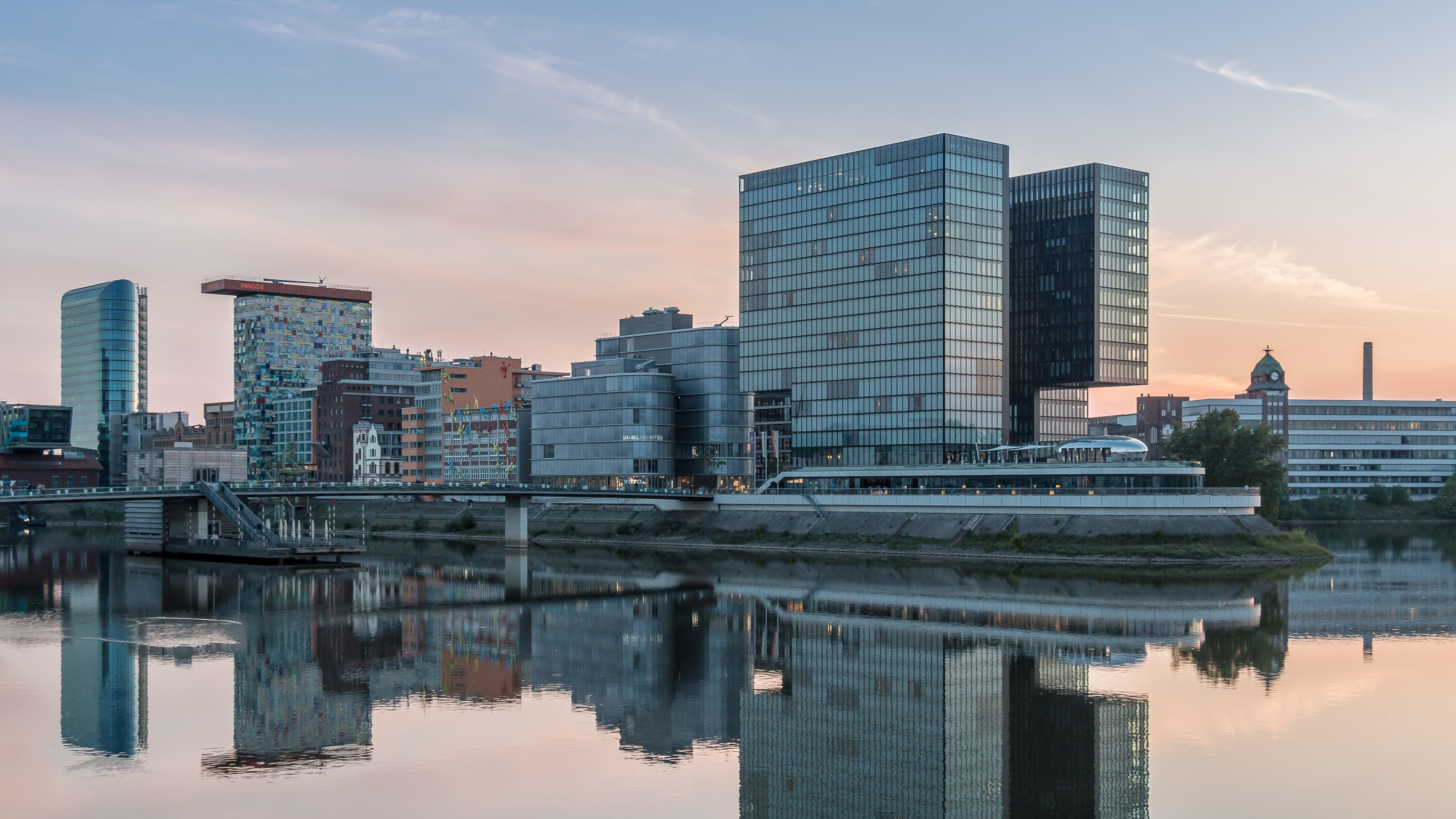 The tower buildings at the Hafenspitze in Düsseldorf at sunset